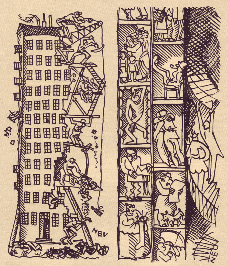 Der Orchideengarten illustration, 1920